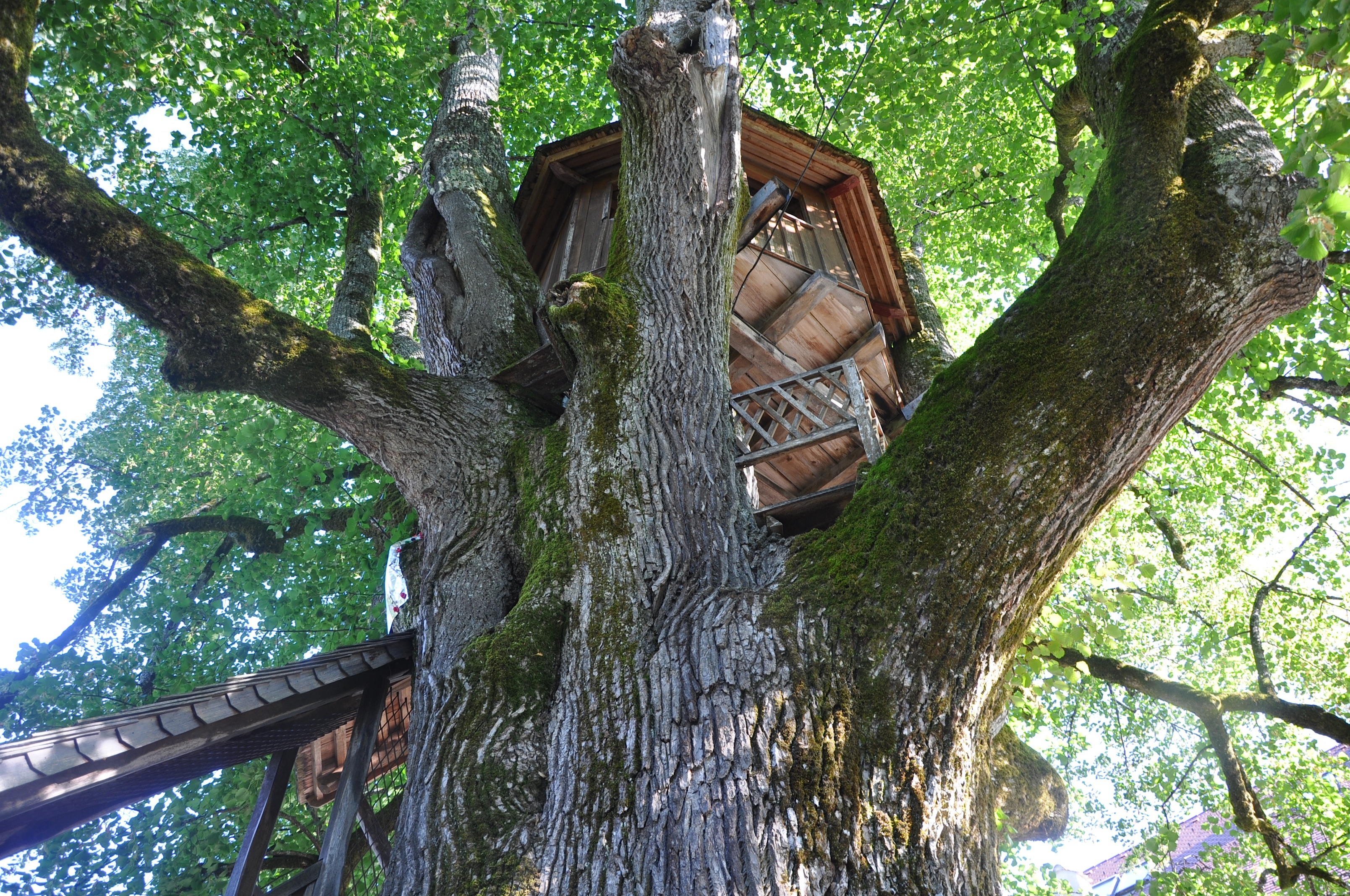 Nova Štifta, village + church, Slovenia. The first house in the tree was erected in 1878 and then several times renovated.